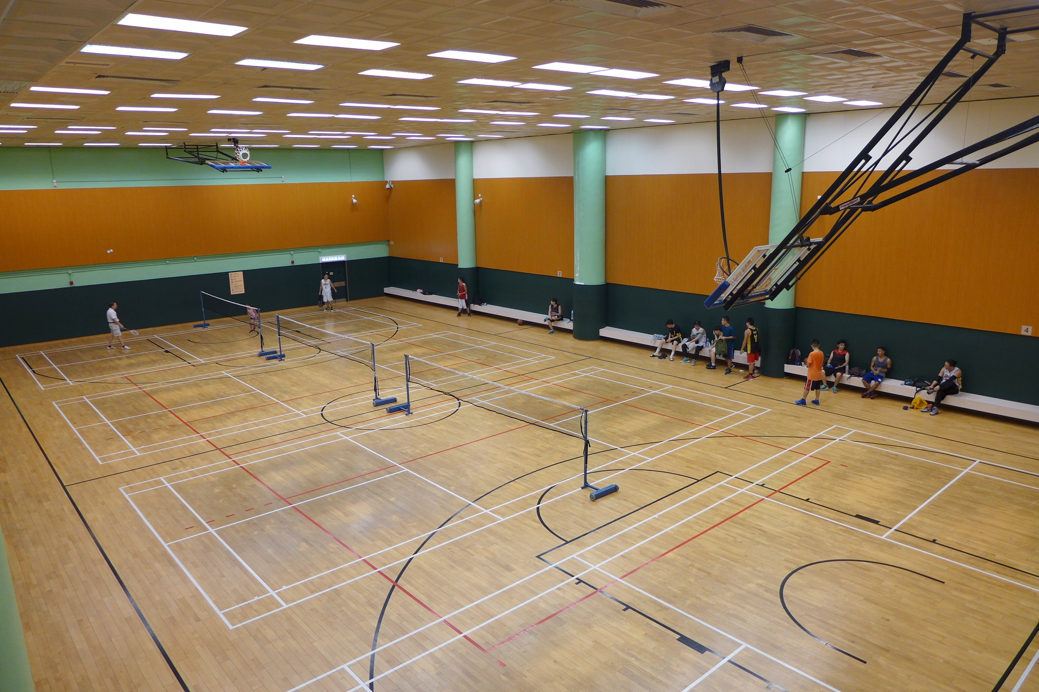 Po On Road Sports Centre Multi Purpose Arena